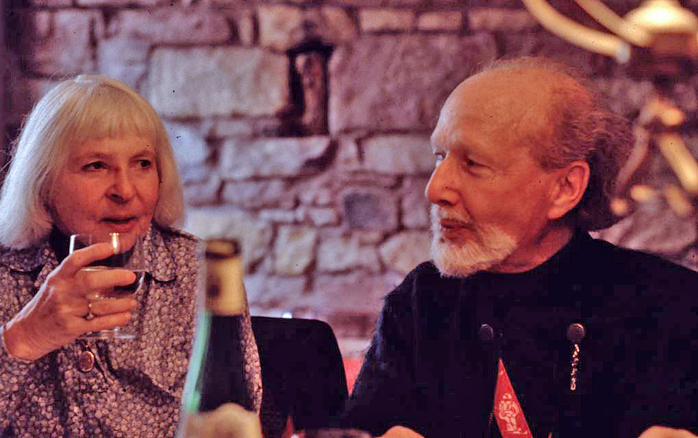 Photography of Trudi and Roland Fischer in visit in Basel in november 1981